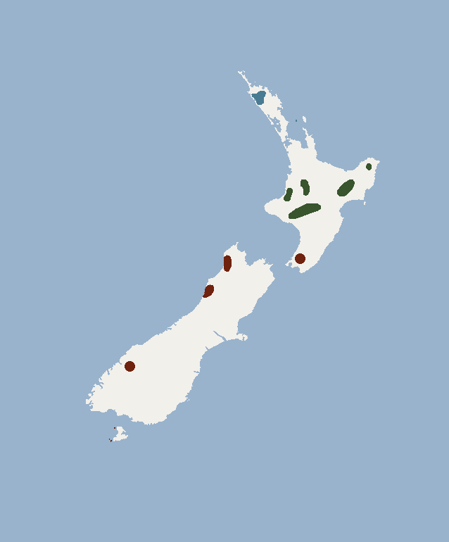 According to . Subspecies range in different colours.